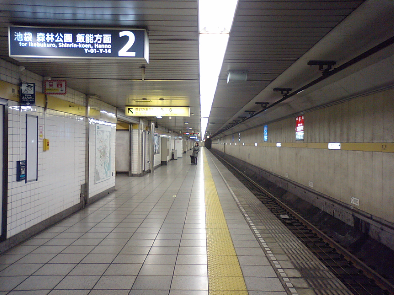 Kōjimachi station platform